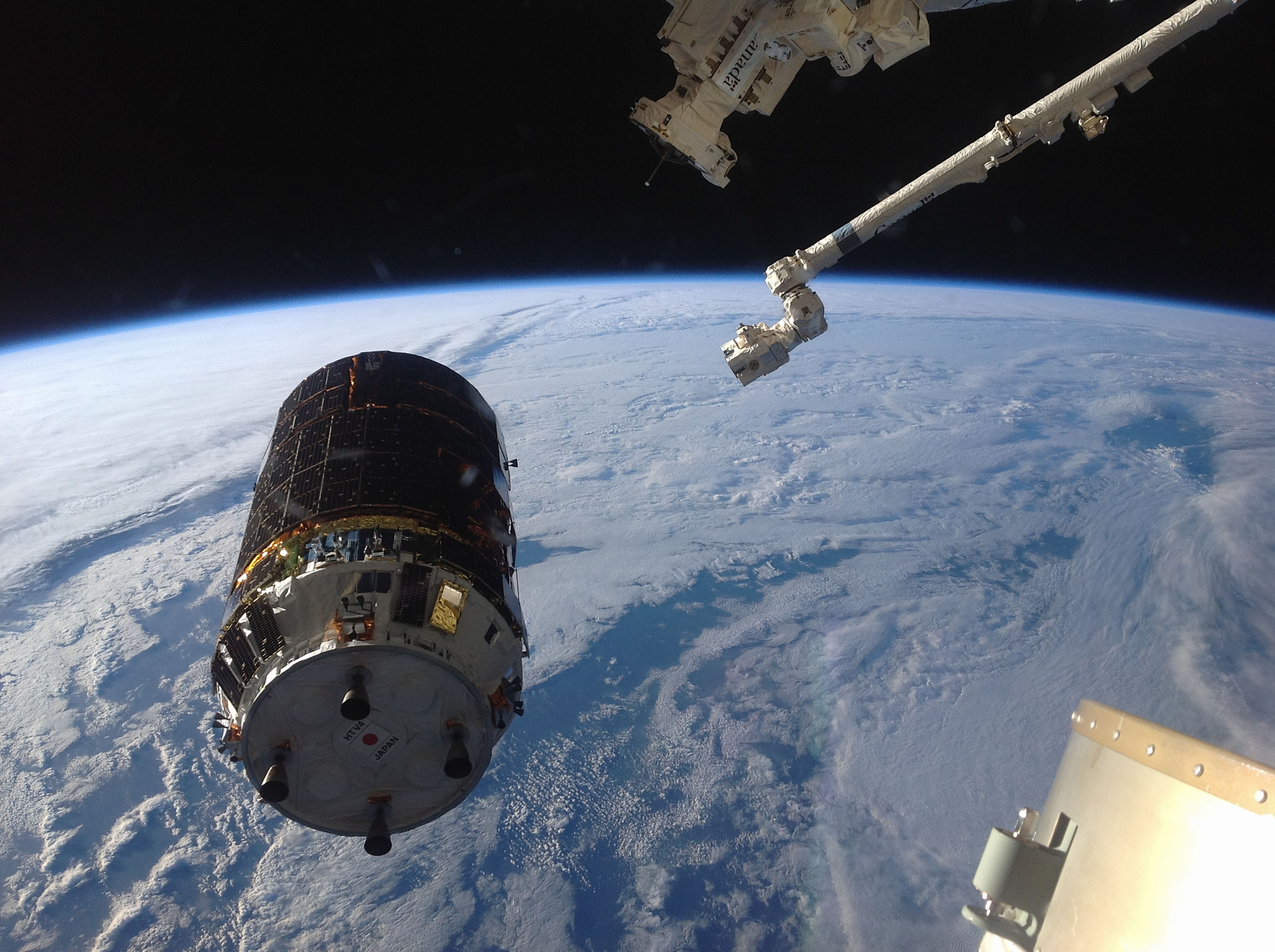 The Canadarm2 moves toward the unpiloted Japanese "Kounotori" H2 Transfer Vehicle-4 (HTV-4) as it approaches the International Space Station. The HTV-4 is delivering 3.6 tons of science experiments, equipment and supplies to the orbiting complex. Earth's horizon and the blackness of space provide the backdrop for the scene.